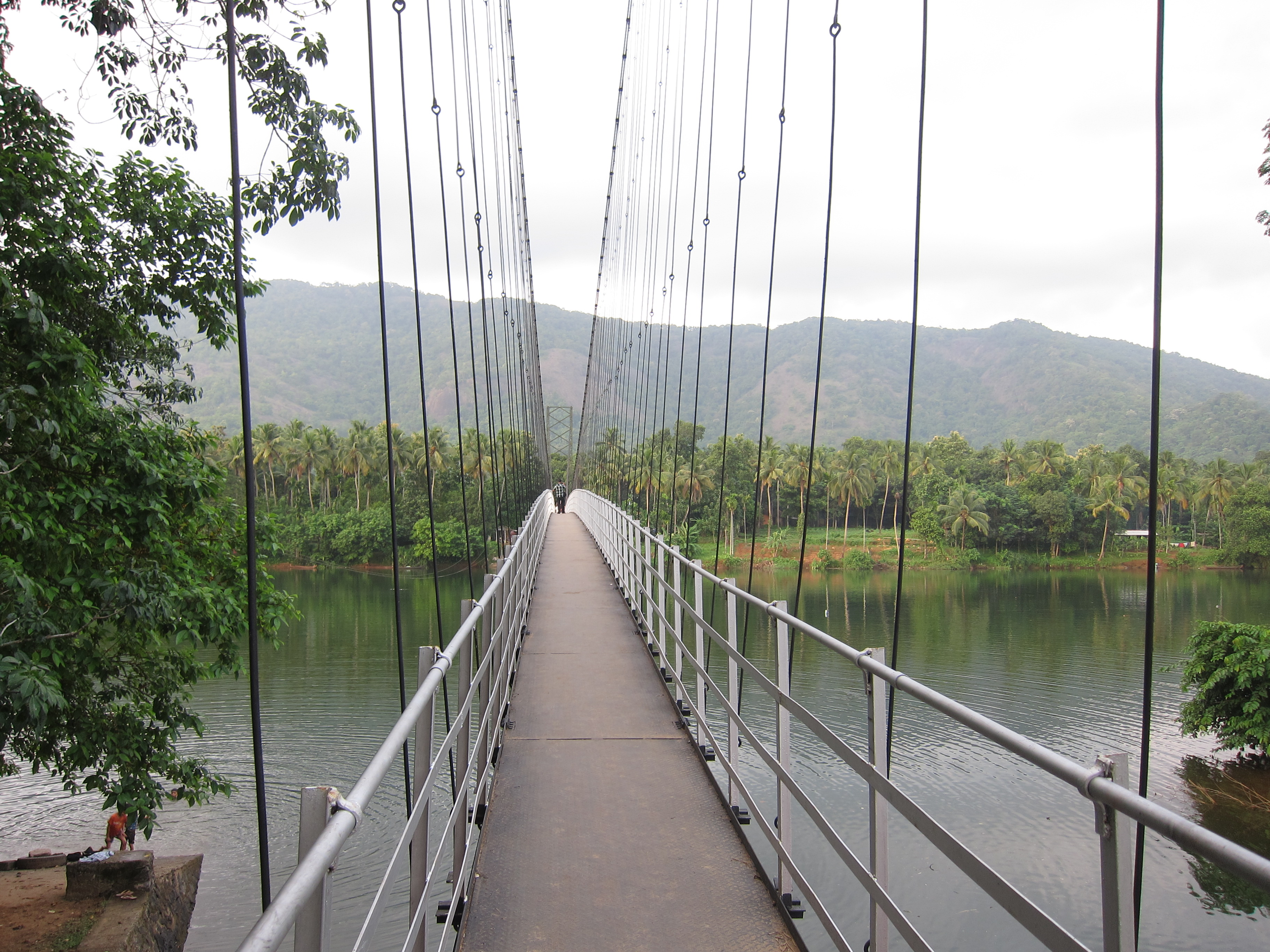 Inchathotty Hanging Bridge, Inchathotty, Keerampara, Ernakulam Over Periyar river